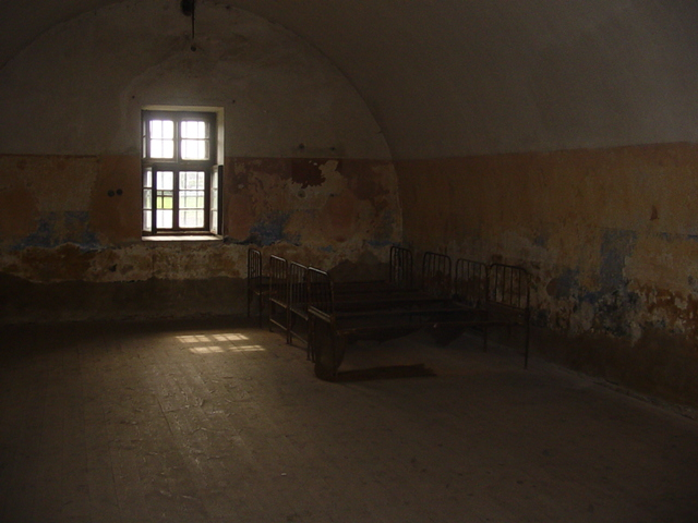 Beds in Theresienstadt. It's almost certain that this room was never used, except for the film about Theresienstadt.